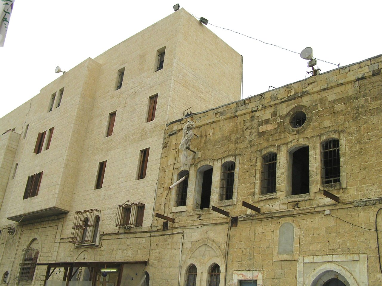 Hebron.